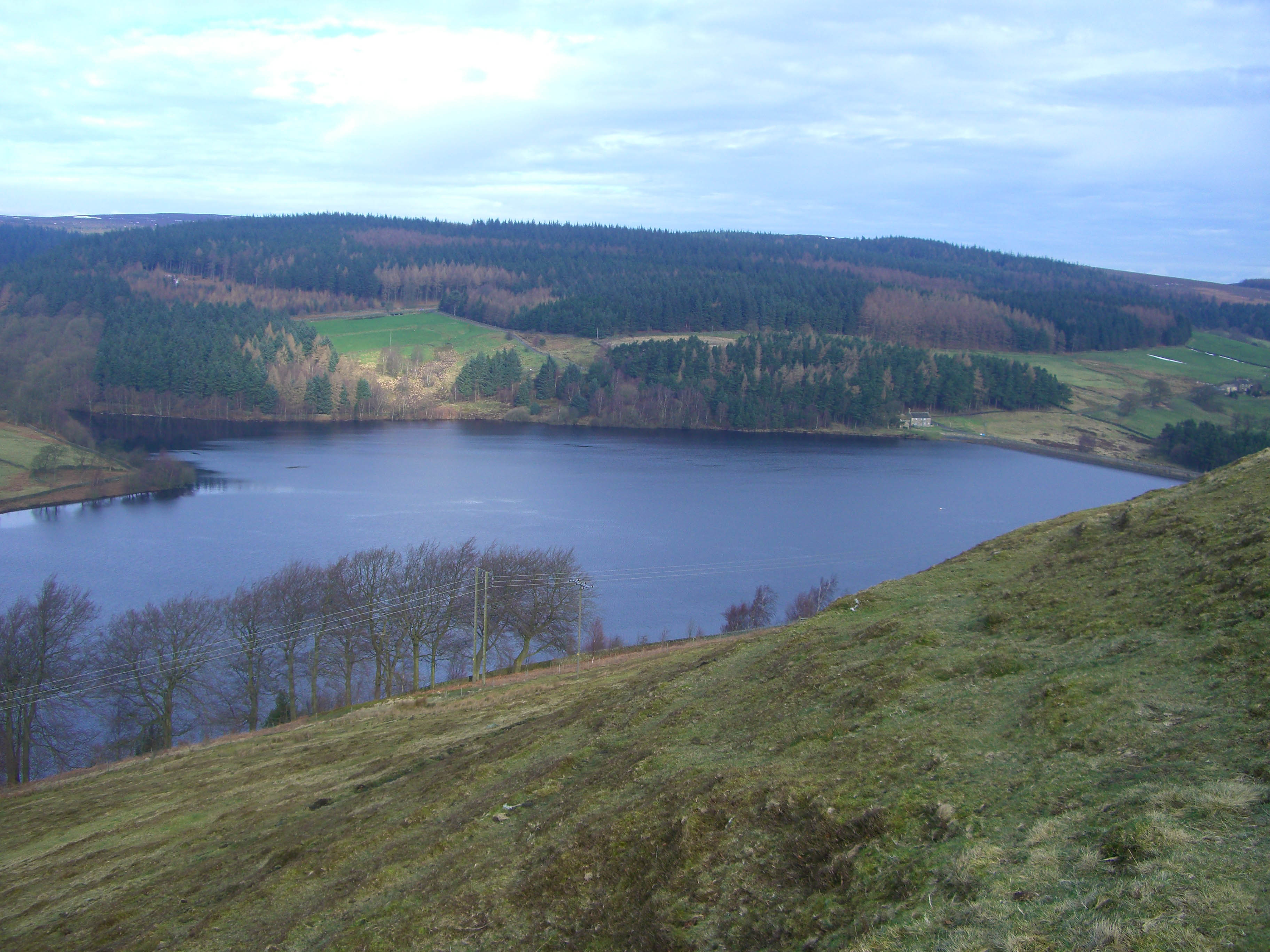 Aerial view of Strines Reservoir, Sheffield, South Yorkshire